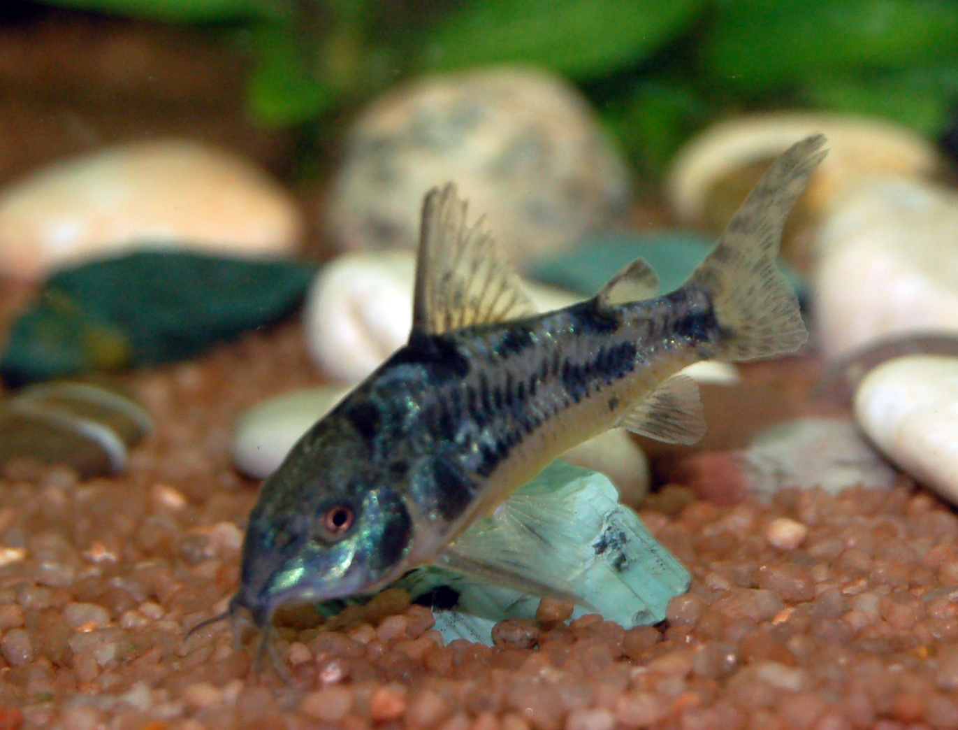 Corydoras paleatus